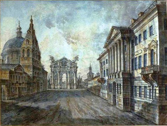 This is my scan from a book "Moscow and lives therein on the eve of the 1812 invasion. Book was published in 1912. Author N.Matveyev.